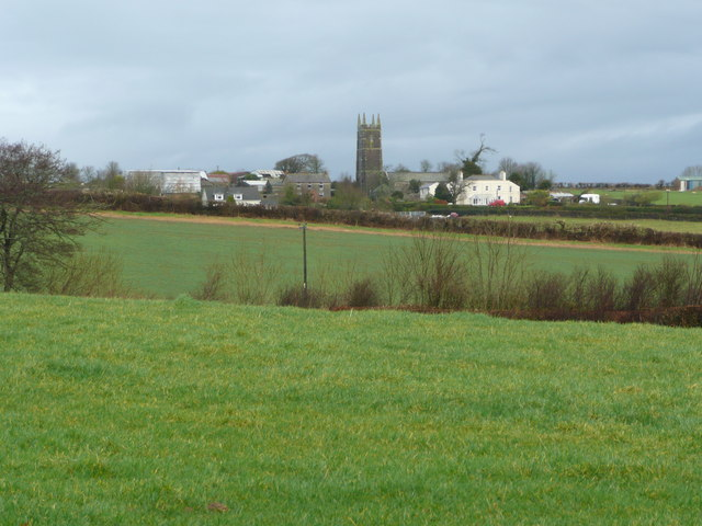 Monkleigh - across the fields Church tower and some houses viewed from the south.